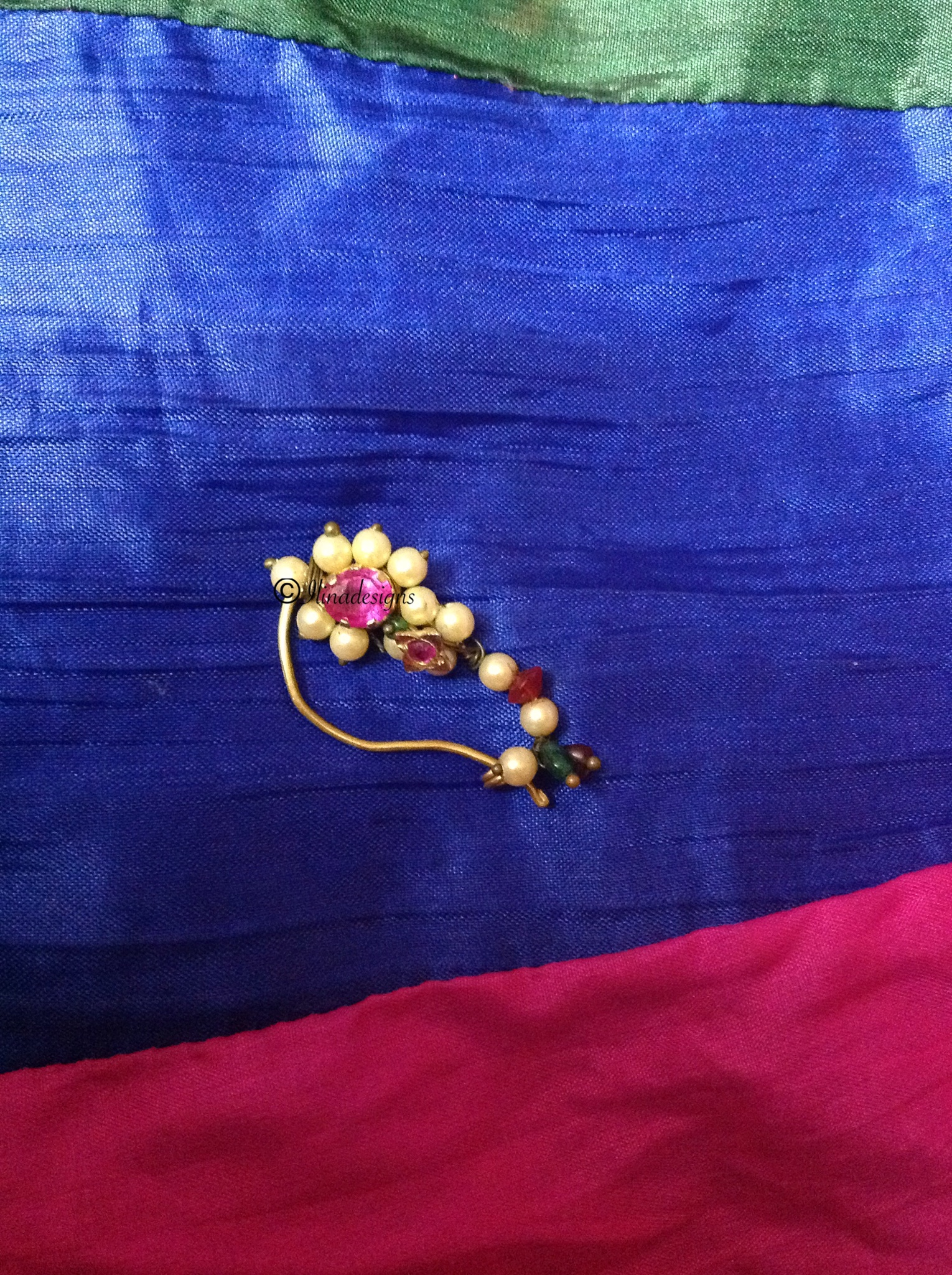 बासरा मोत्याने बनविलेलि नथ.